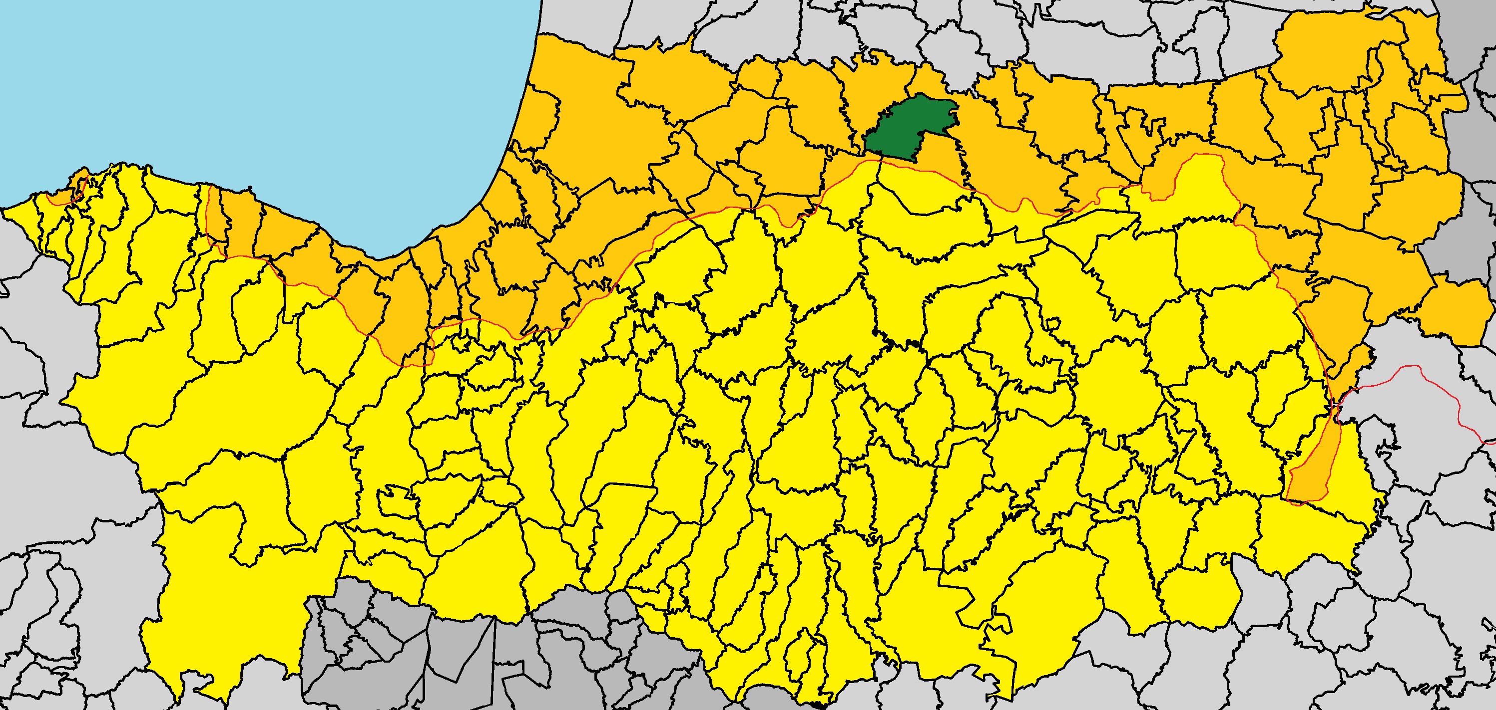 Agios Vasileios in Nicosia District (de jure).